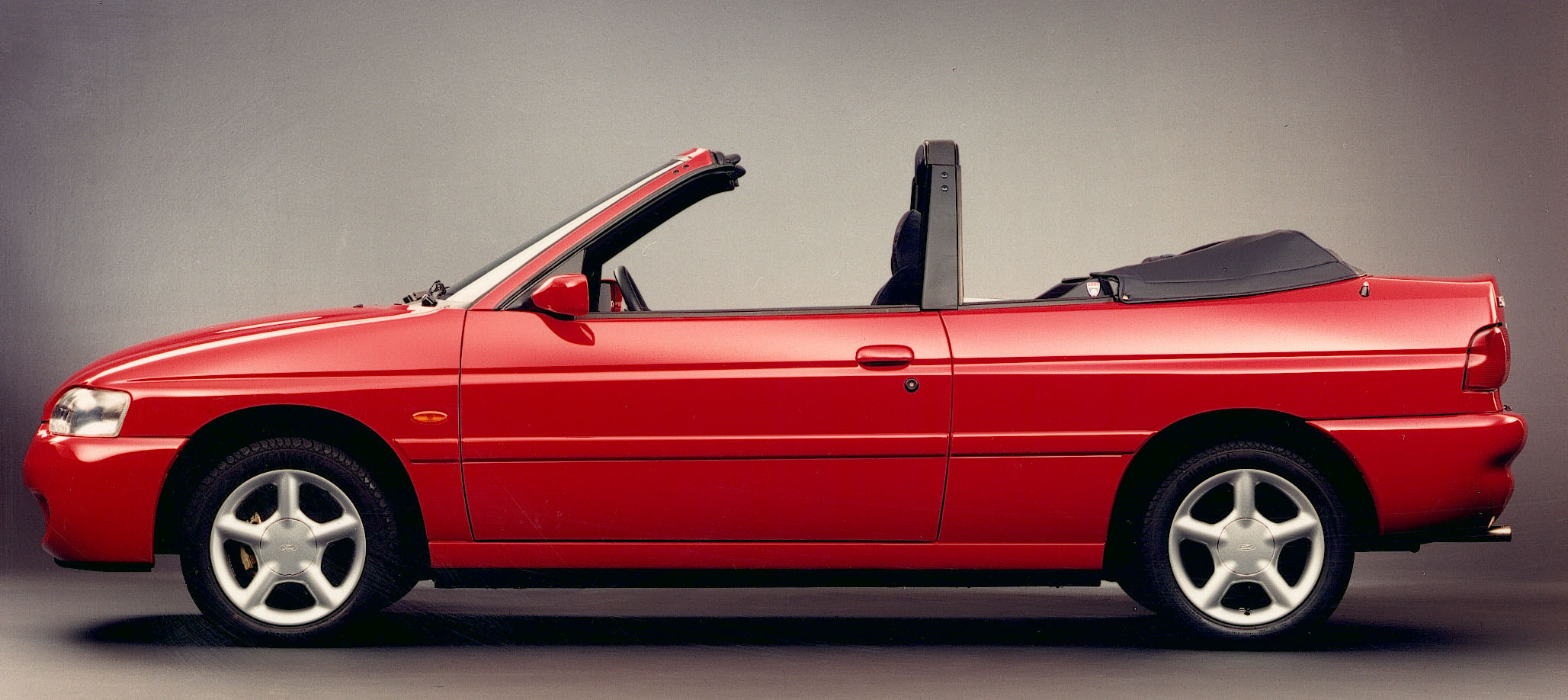 Ford Escort Convertible